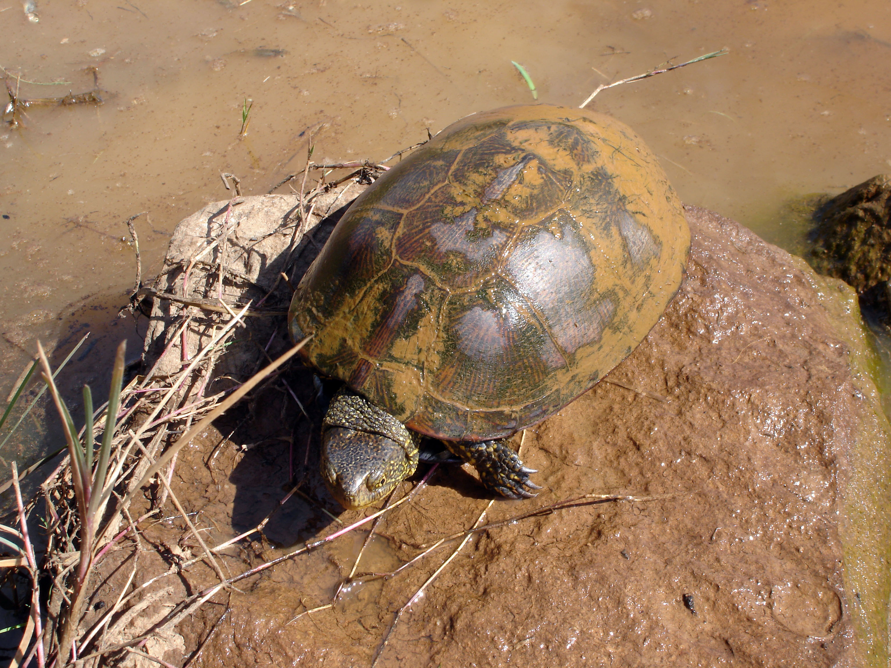 European pond terrapin (Emys orbicularis) in León, Spain